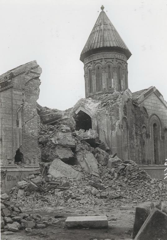 Vanqi Church. old Tbilisi